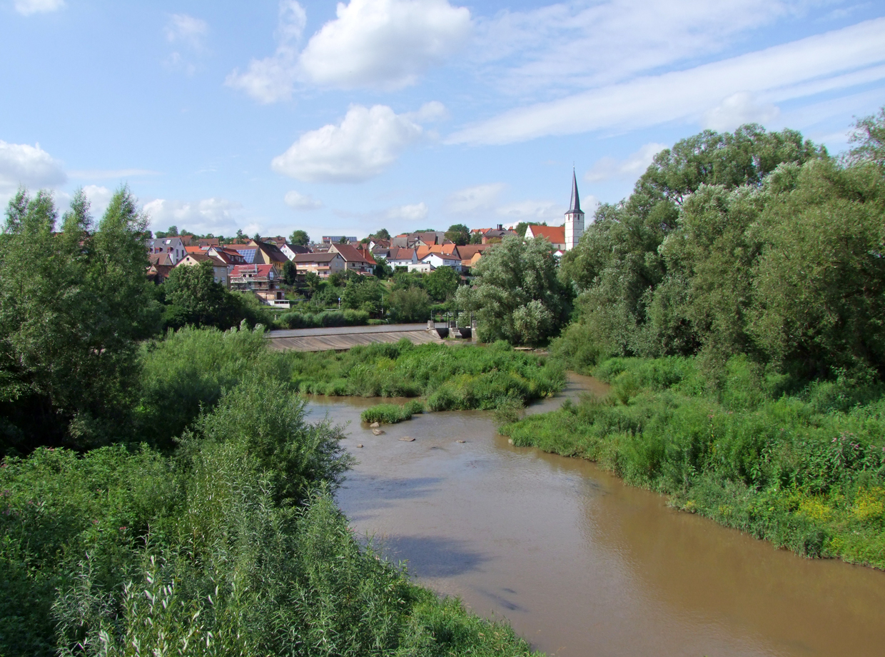 View over the river named Kocher at the village Gochsen